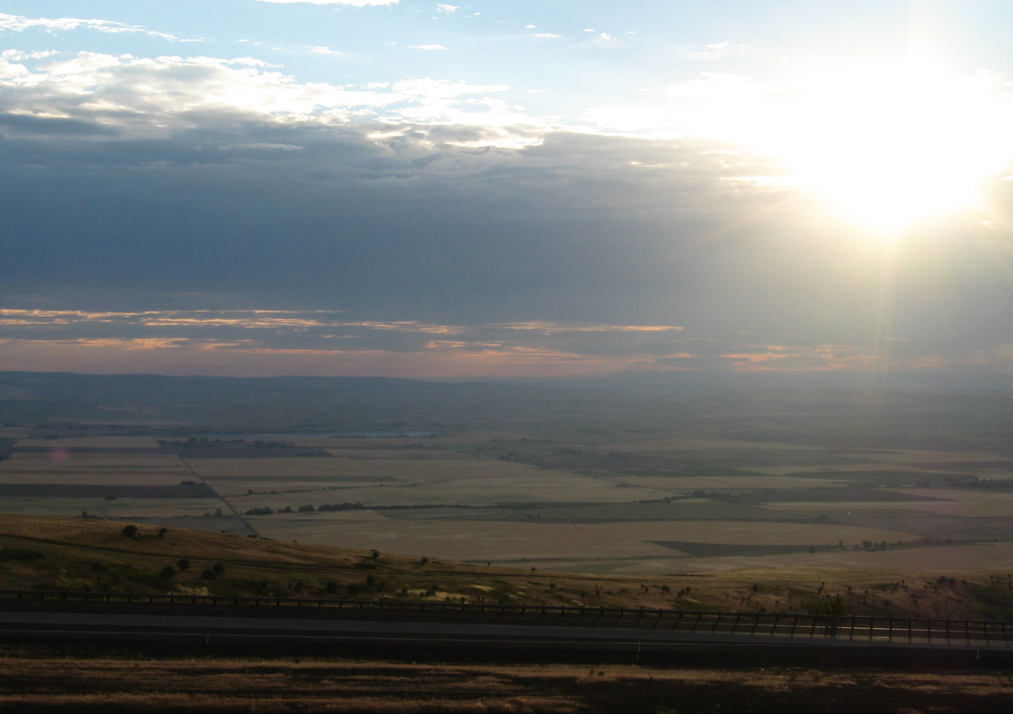 Umatilla County, Oregon, I-84 eastbound and the McKay Reservoir in between.